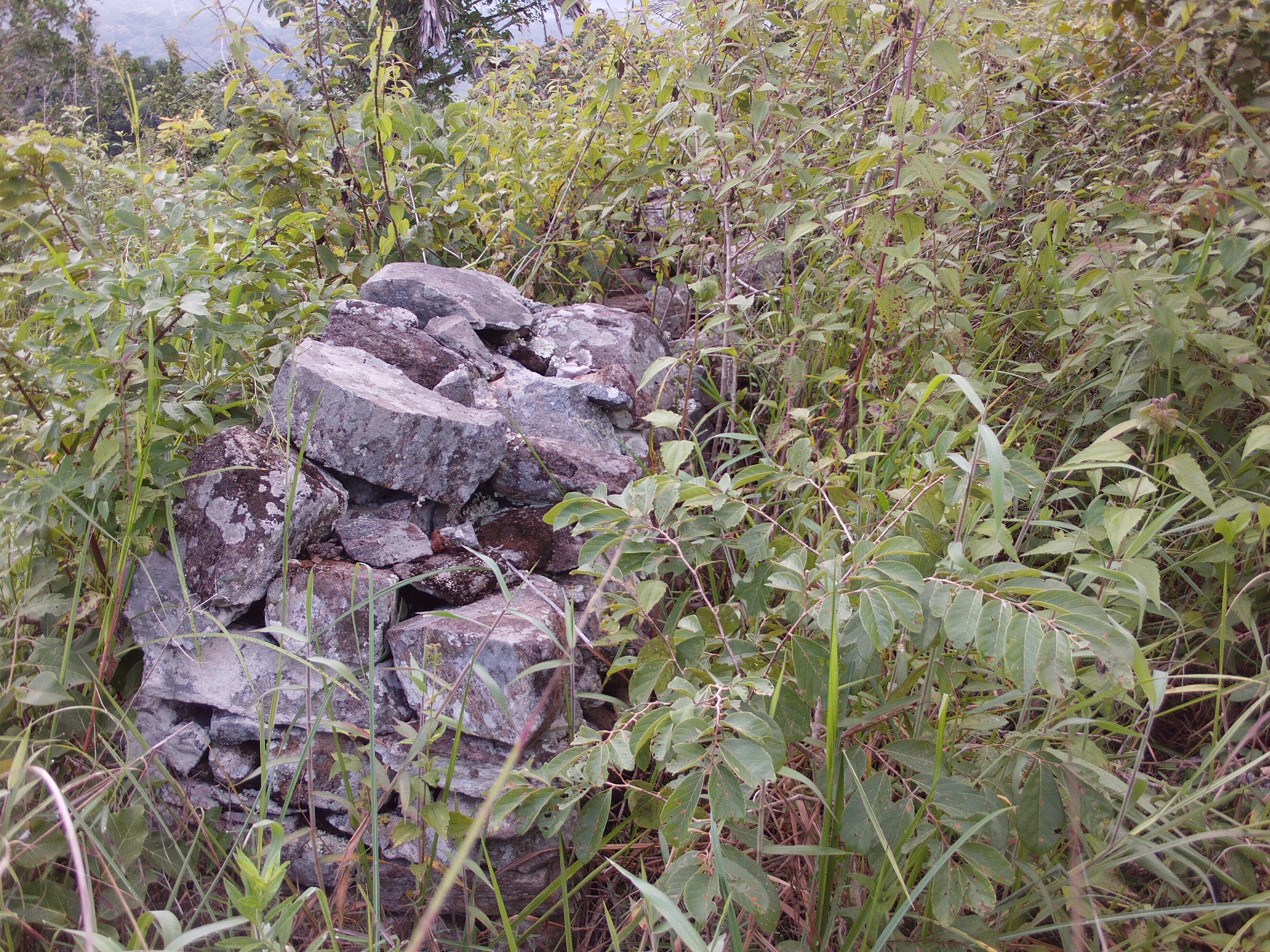 Ruins of the former German military post used in 1911/12 at the top of Mont Bitam (Don i Tison) near Bafia (Cameroon). Reused in 1914 by German ethnographer Günther Tessmann, who called the place 'Bafiahöhe'